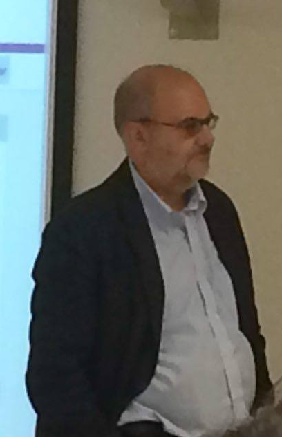 Economist Branko Milanovic in UC3M (Madrid)